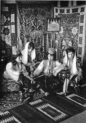 Turkish Ladies Smoking a Hookah. This is a photograph dating from around 1910. It comes from a two-volume photographic journal of women from all sorts of cultures called Women of All Nations: A Record of their Characteristics, Habits, Manners, Customs, and Influence. It was edited by T. Athol Joyce, M.A. and N.W. Thomas, M.A., Fellows of the Royal Anthropological Institute and published by Cassell and Company, London. I don't know who the models are.